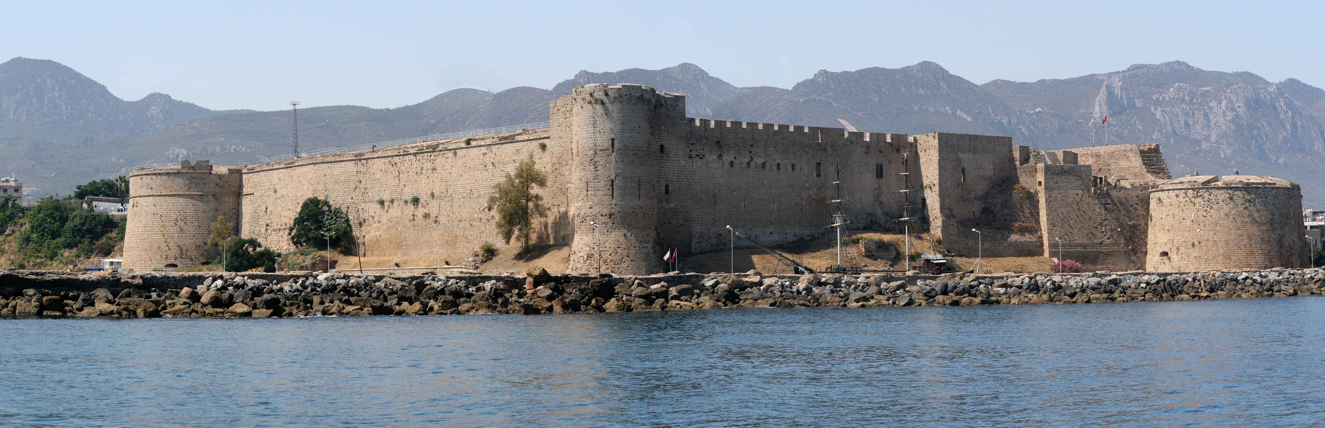 Panorama of Girne Kalesi (Kyrenia Castle); Girne, Kuzey Kibris (Kyrenia, Northern Cyprus)